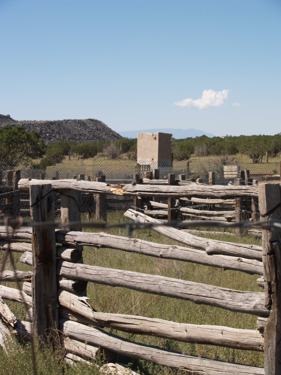 Caja del Rio, New Mexico. Old stock pens and building at "headquarter" trailhead.